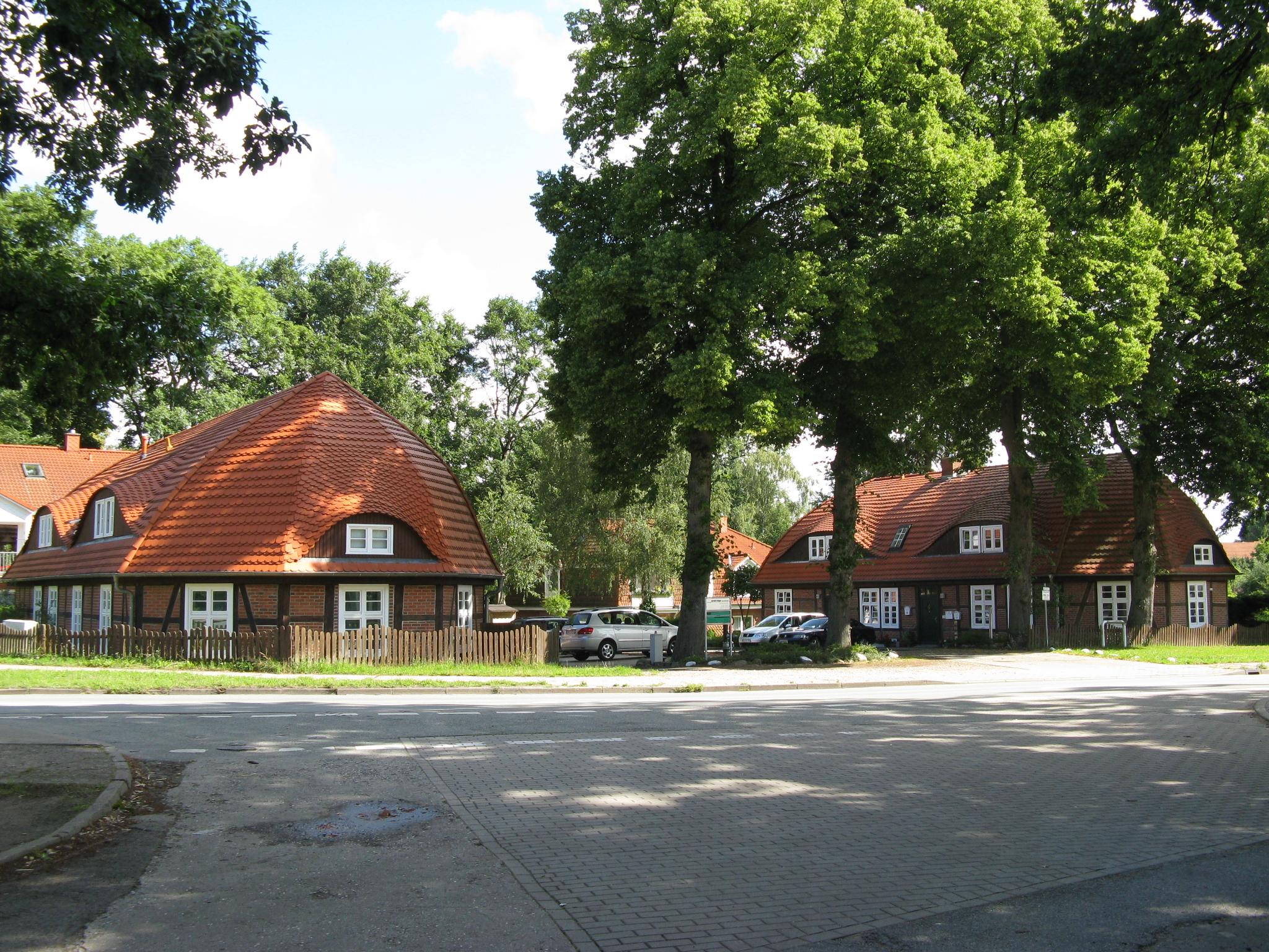 Hunting lodge Jagdschloss Friedrichsthal in Schwerin, Mecklenburg-Vorpommern, Germany. Cavalier houses in opposite to the main building. On the left: Herrensteinfelder Weg 2, on the right: Lärchenallee 42.